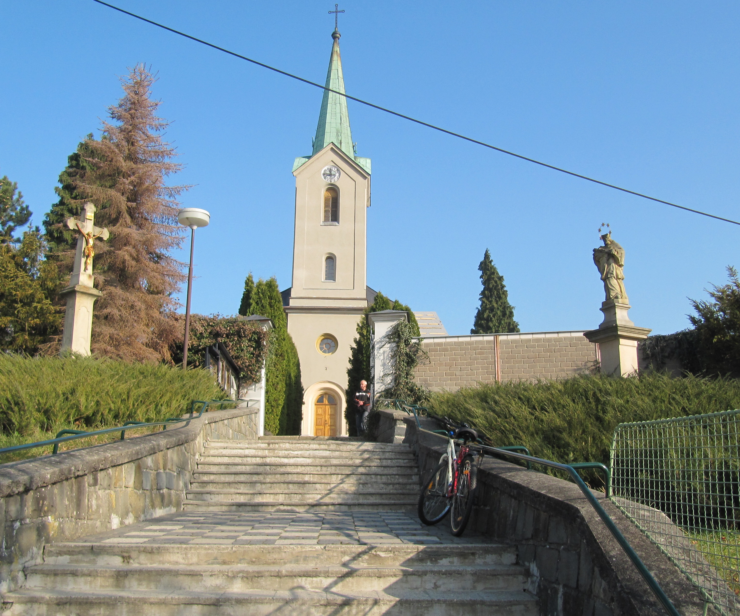 Slavičín in Zlín District, Czech Republic. Church of St. Adalbert.